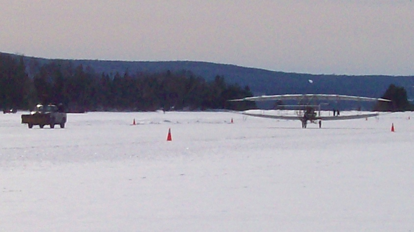 The Silver Dart replica being towed to its starting position for the centennial of flight in Canada.